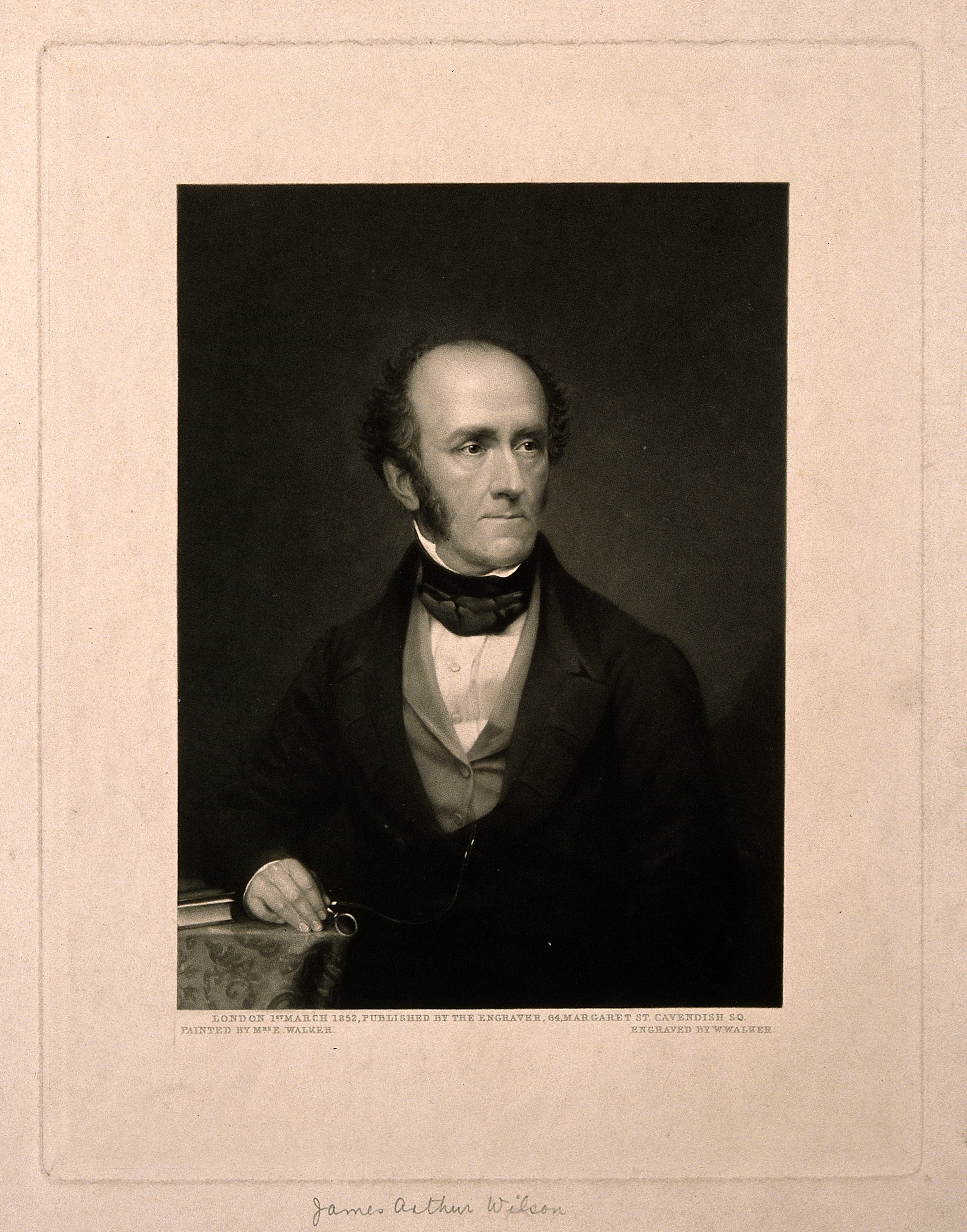 James Arthur Wilson. Mezzotint by W. Walker, 1852, after Mrs E. Walker. Iconographic Collections Keywords: portrait prints; mezzotints; James Arthur Wilson